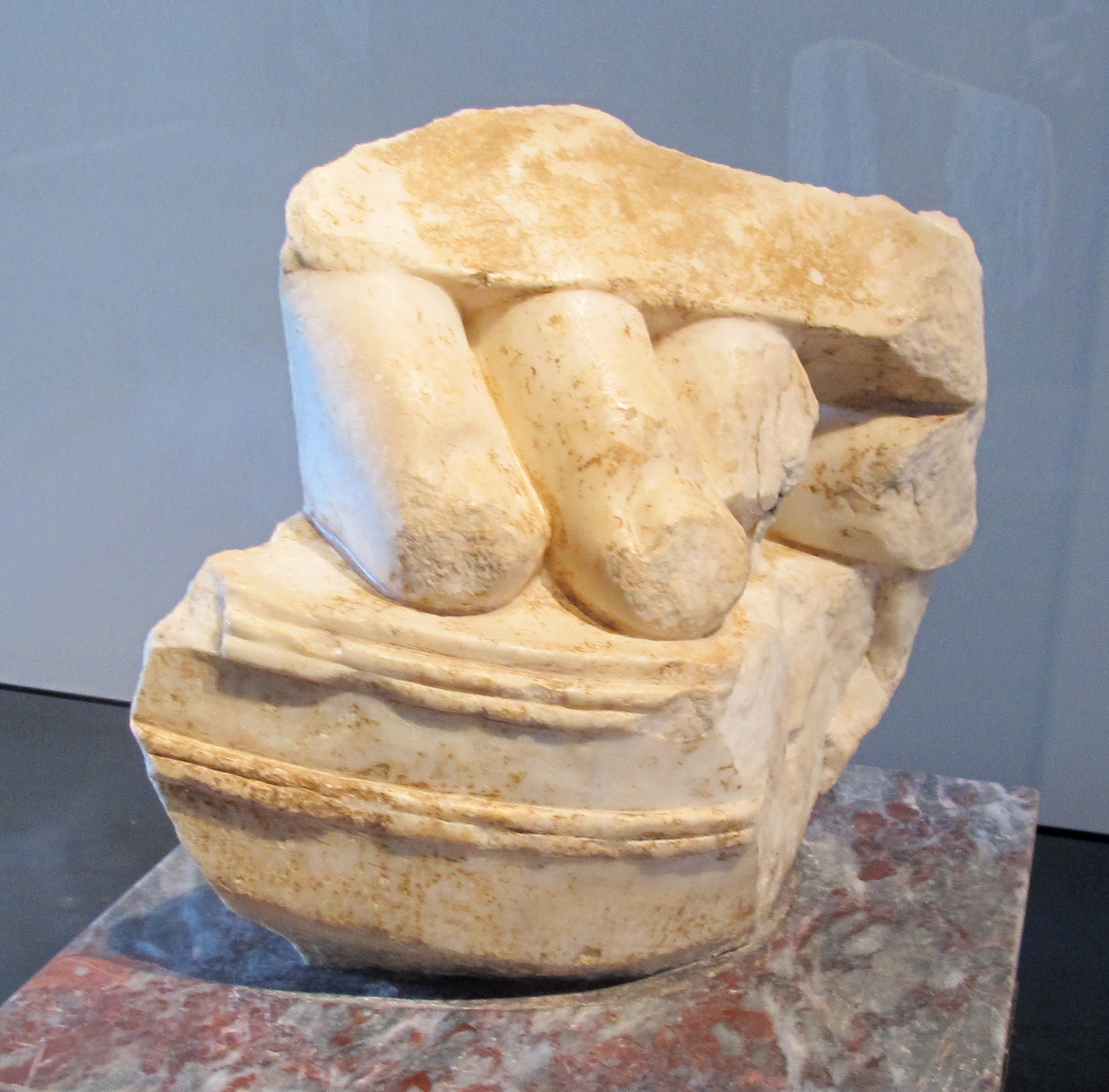 Ancient Libraries Exhibition (Colosseum, 2014)